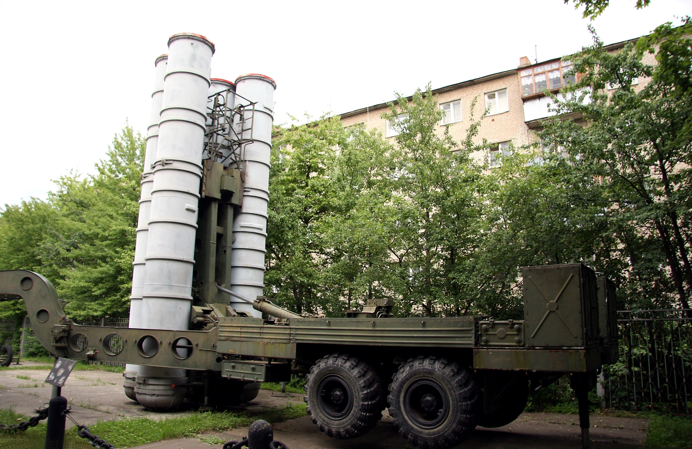 Air Defense History Museum in Zarya in Moscow Oblast.